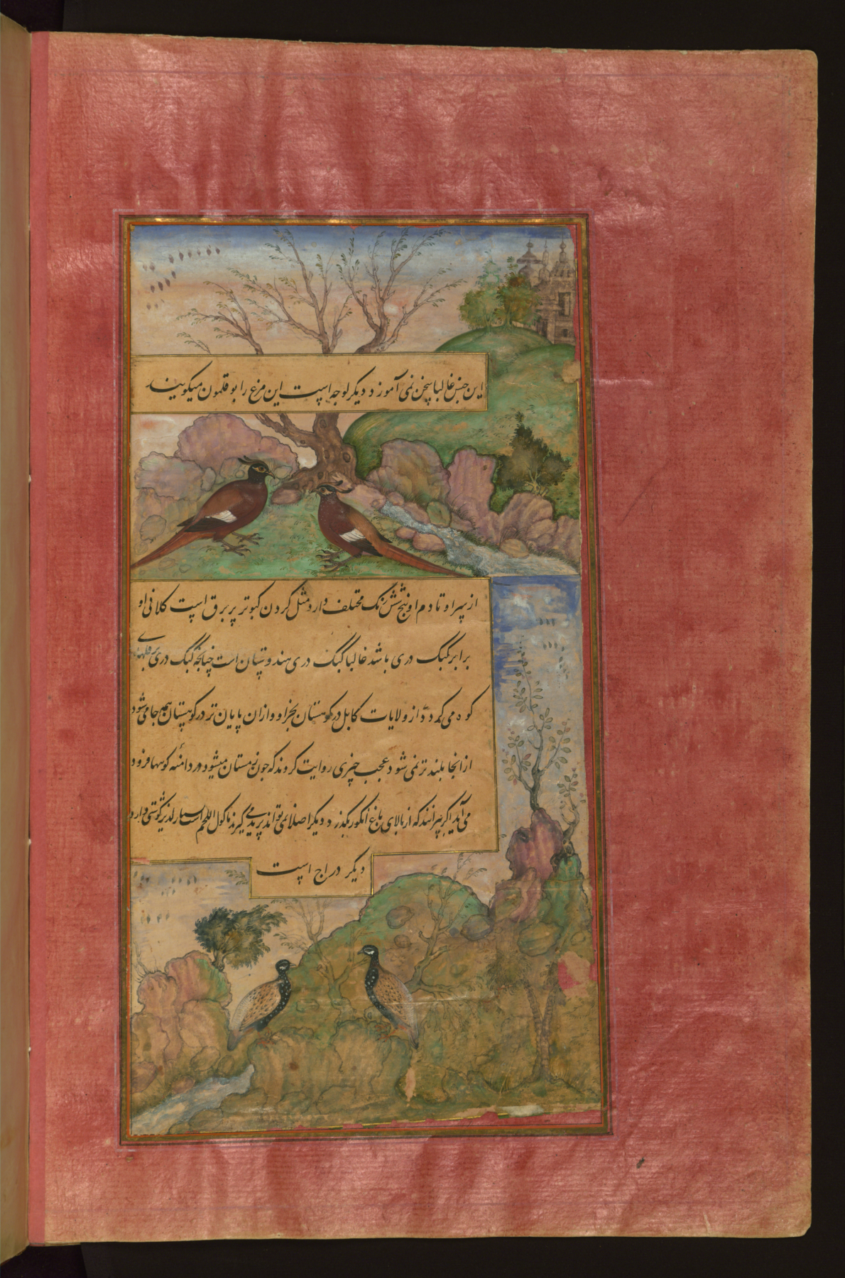 Illustrations from the Manuscript of Baburnama (Memoirs of Babur) - Late 16th Century Bāburnāma is the memoirs of Ẓahīr ud-Dīn Muḥammad Bābur (1483-1530), founder of the Mughal Empire and a great-great-great-grandson of Timur. It is an autobiographical work, originally written in the Chagatai language, known to Babur as "Turki" (meaning Turkic), the spoken language of the Andijan-Timurids. Because of Babur's cultural origin, his prose is highly Persianized in its sentence structure, morphology, and vocabulary,and also contains many phrases and smaller poems in Persian. During Emperor Akbar's reign, the work was completely translated to Persian by a Mughal courtier, Abdul Rahīm, in AH (Hijri) 998 (1589-90). These Paintings, being a fragment of a dispersed copy, was executed most probably in the late 10th AH /16th CE century. It contains 30 mostly full-page miniatures in fine Mughal style by at least two different artists. Another major fragment of this work (57 folios) is in the State Museum of Eastern Cultures, Moscow.